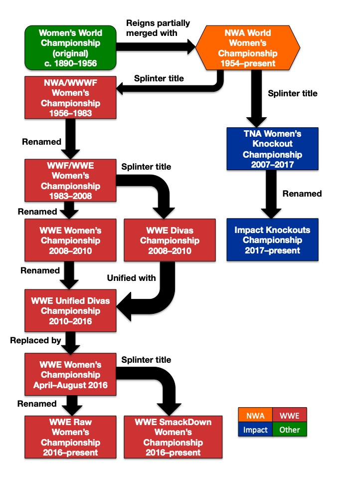 A diagram showing the evolution of various women's wrestling championships